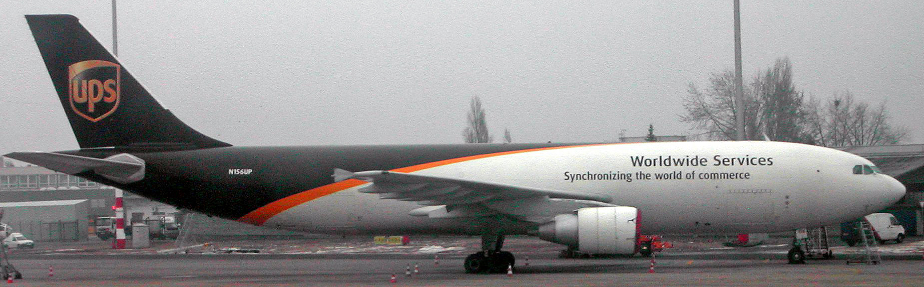 Airbus A300F4-622R UPS Registration: N156UP. Photo taken at the Budapest airport 30.01.2006. Author: Piotr_J